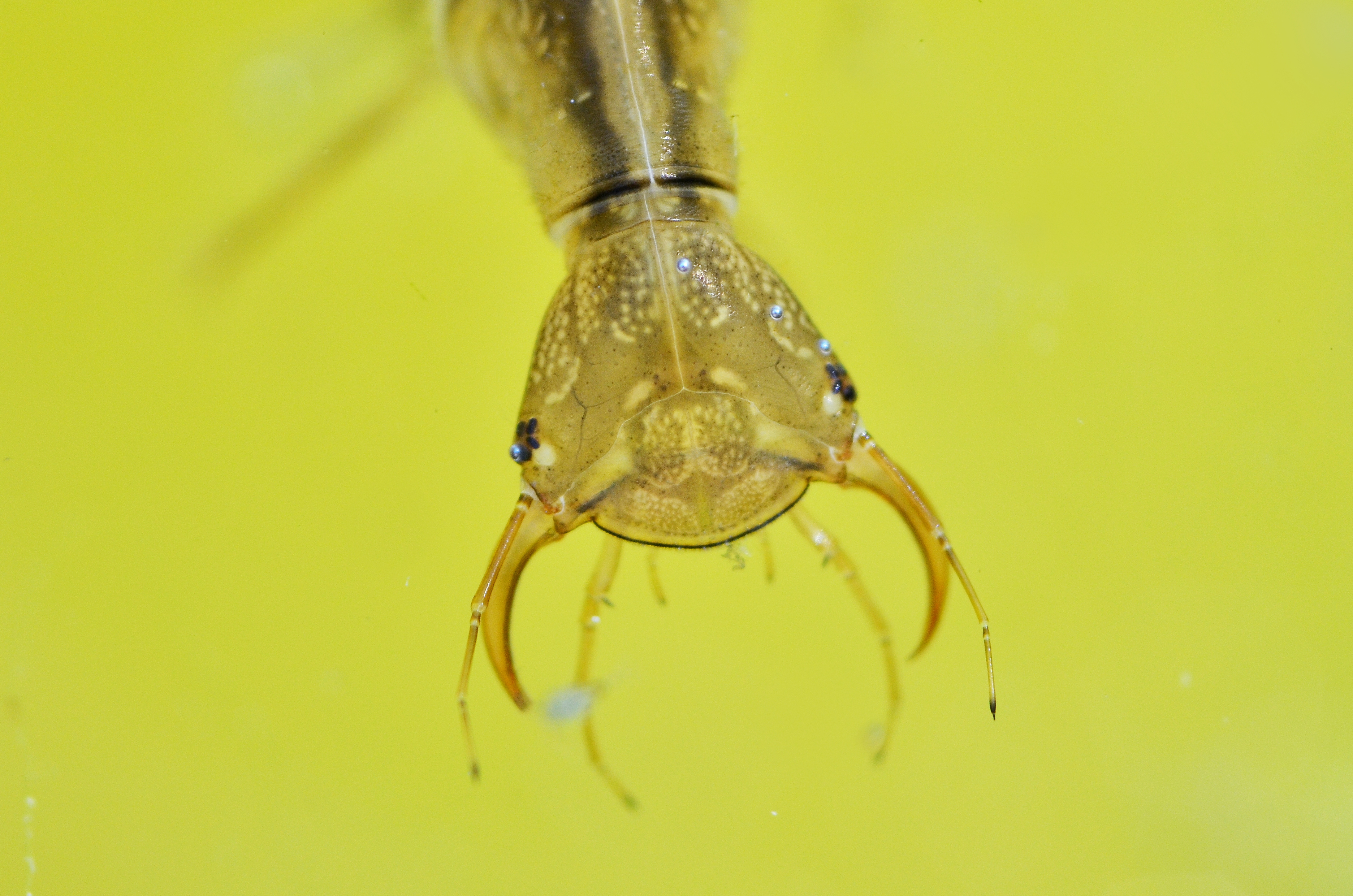 Head of a diving beetle larva, Dytiscus sp. (Coleoptera, Dytiscidae) in natural conditions Locality : Hombourg, Belgium